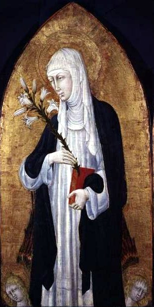 Saint Catherine of Siena Tempera and gold on panel, 108.6 x 53.3 cm Fogg Art Museum, Harvard